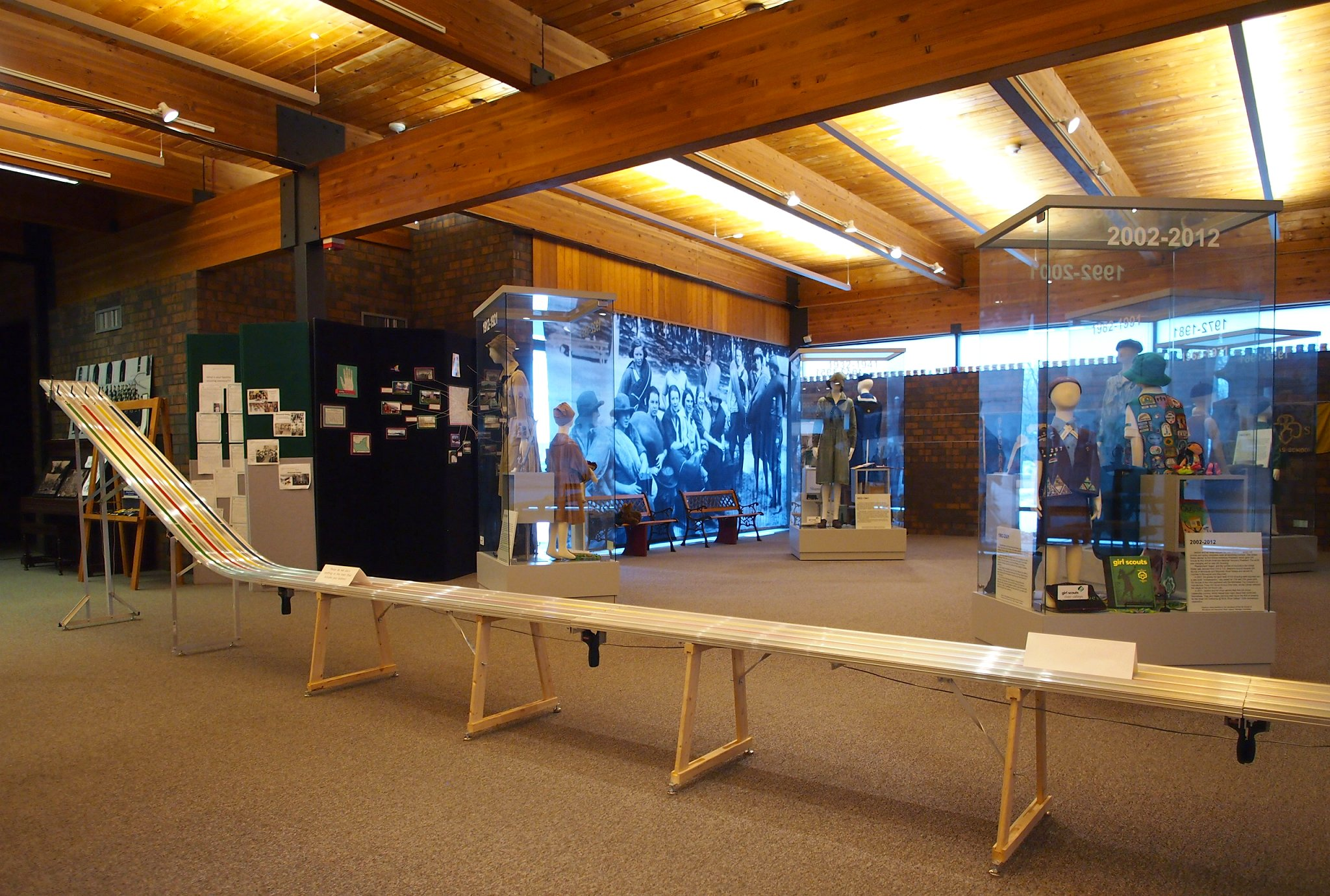 Interior of North Star Museum of Boy Scouting & Girl Scouting, 2640 E. 7th Ave, North St. Paul, Minnesota, USA.